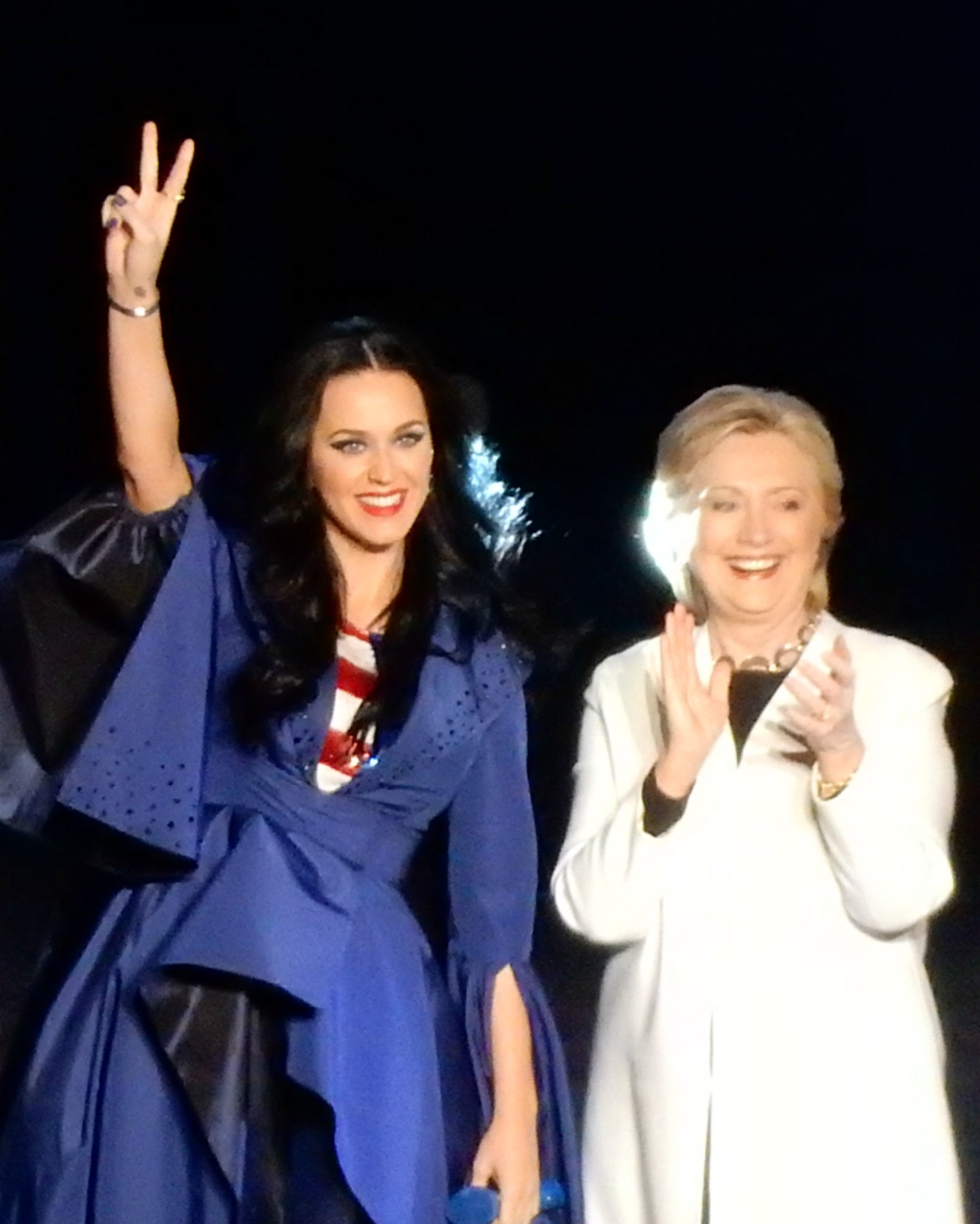 Hillary Clinton Get Out The Vote Concert at Philadelphia's Mann Center